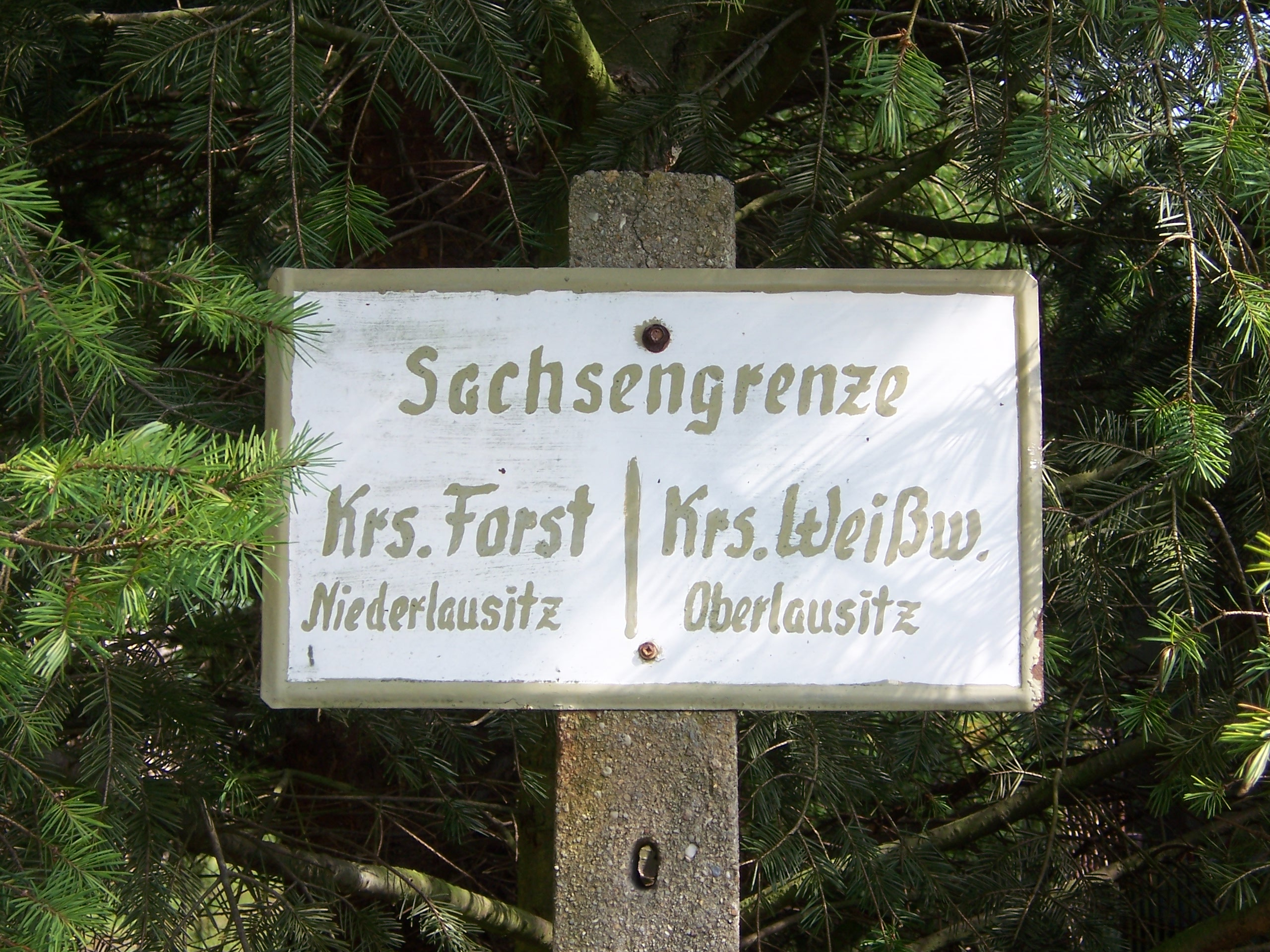 Border sign near Bad Muskau marking the border between Lower und Upper Lusatia. Map: 51° 34′ 57″ N, 14° 43′ 38″ E